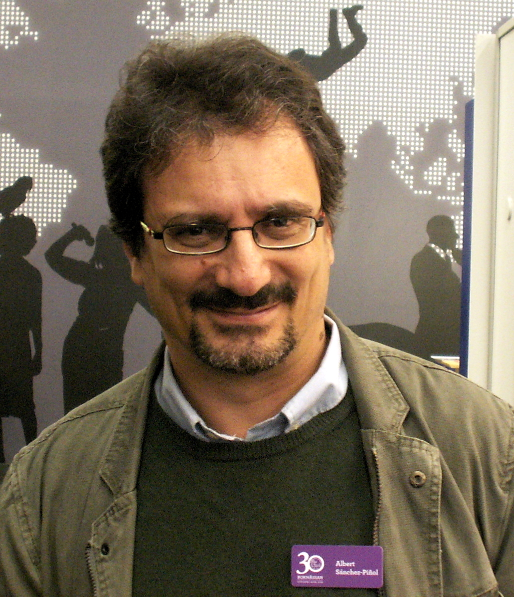 At the Göteborg Book Fair 2014.